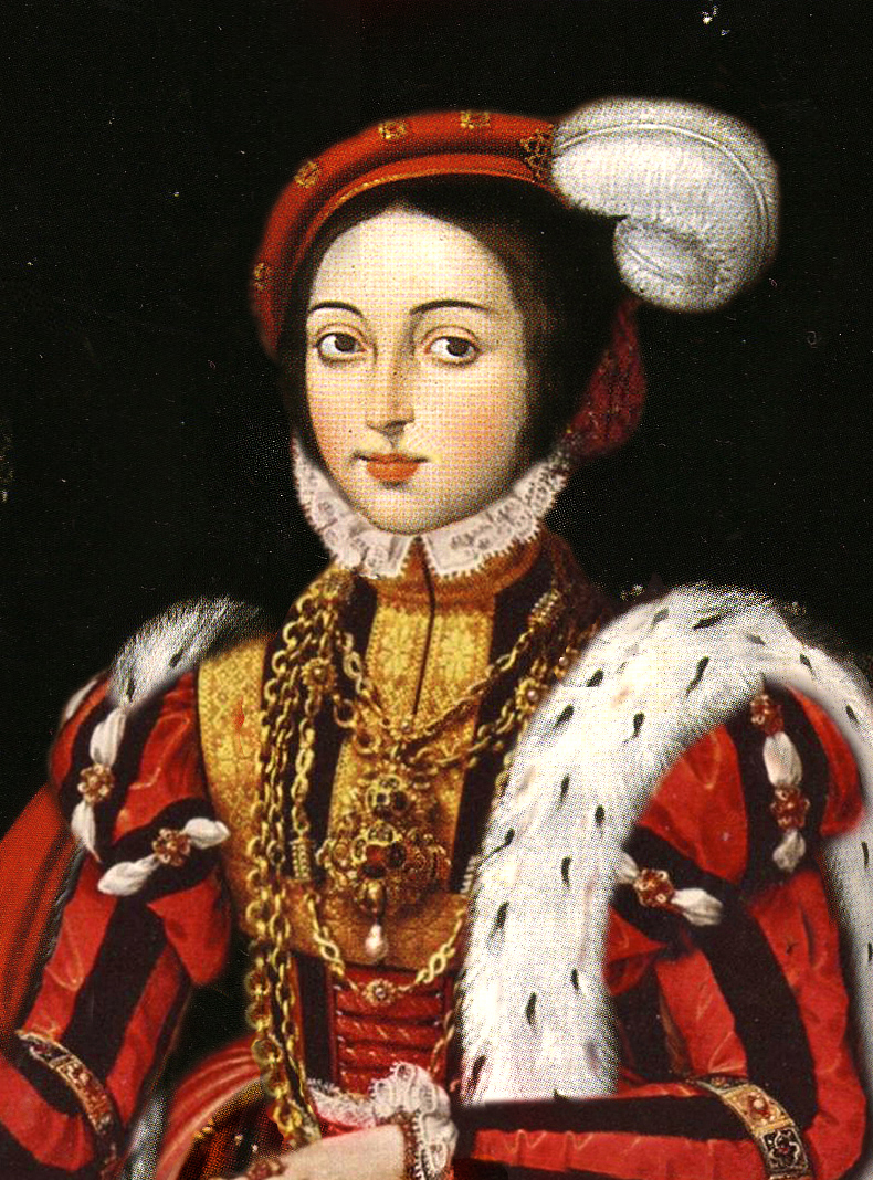 a duquesa